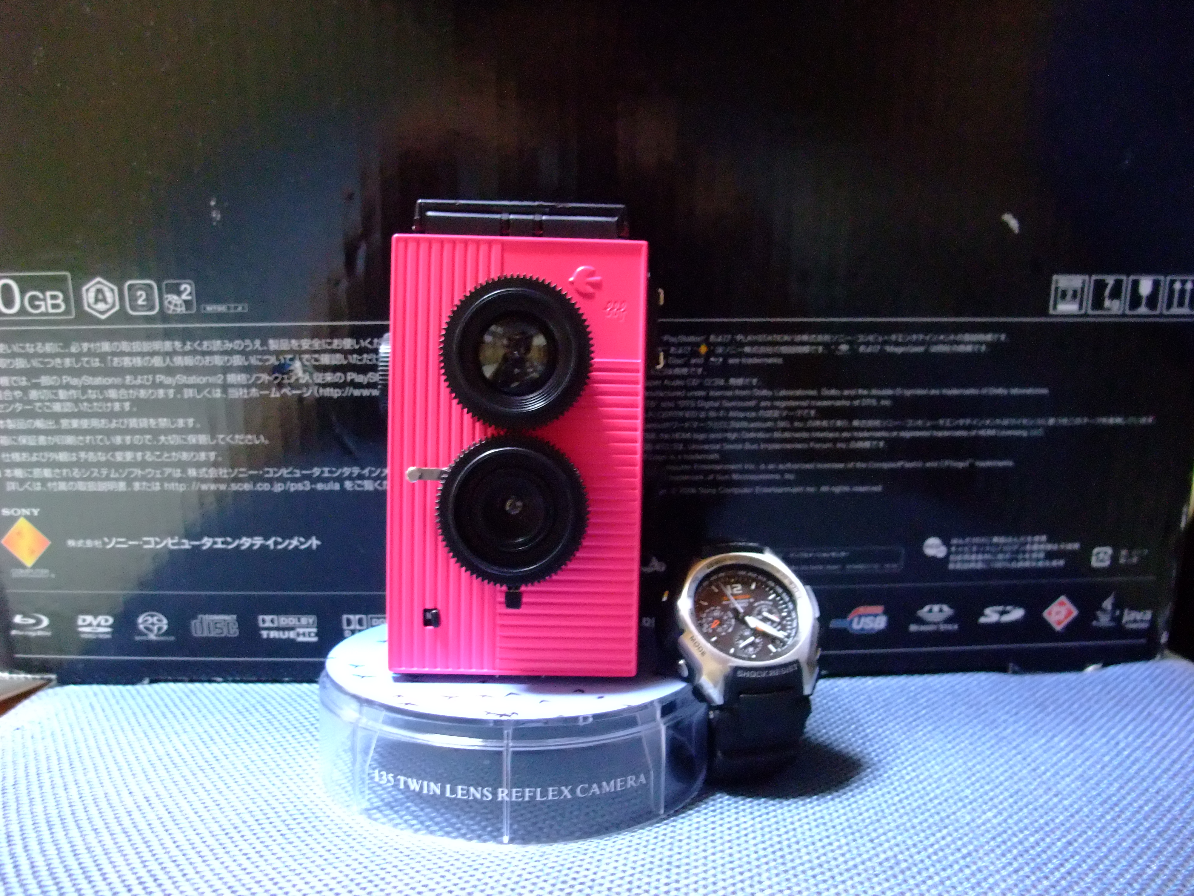 Masked Rider Decade edition model of blackbird,fly.